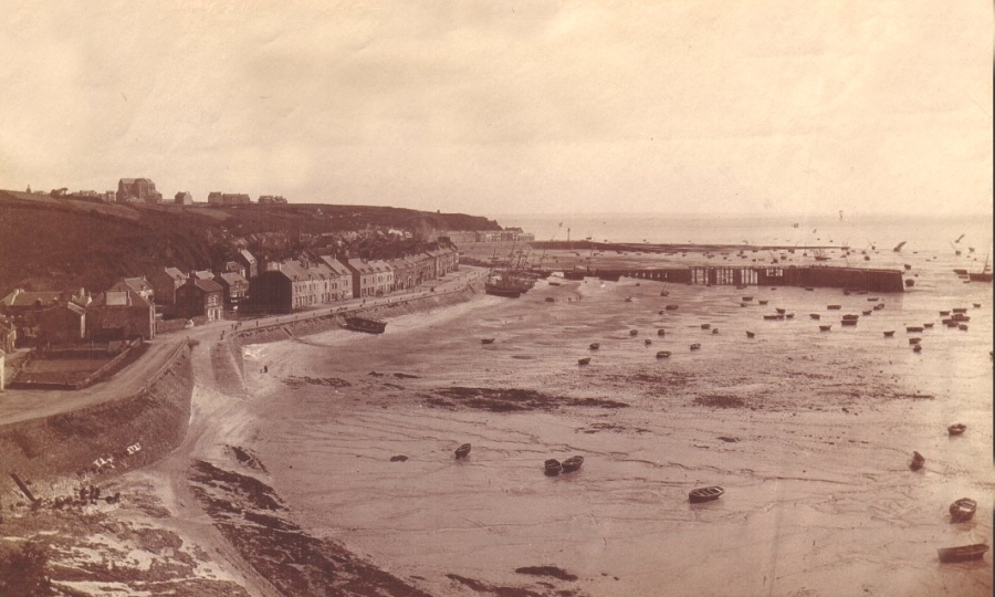 Picture of the "Houle" of Cancale, France in 1896.